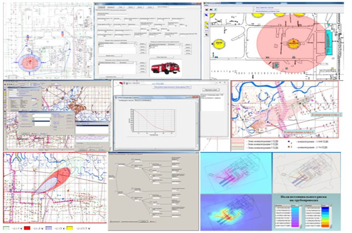 Безопасность